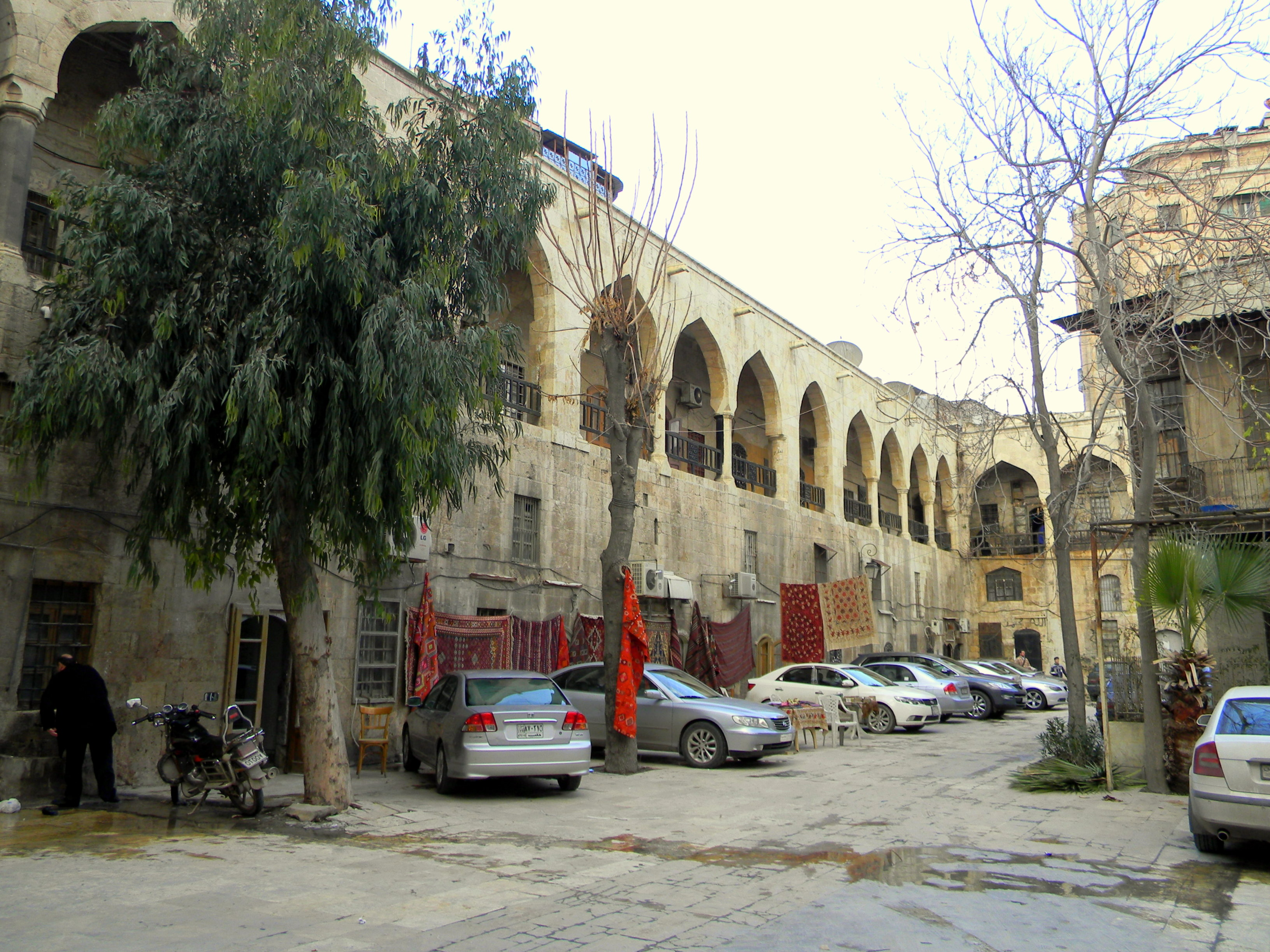 Khan Al-Wazir Aleppo